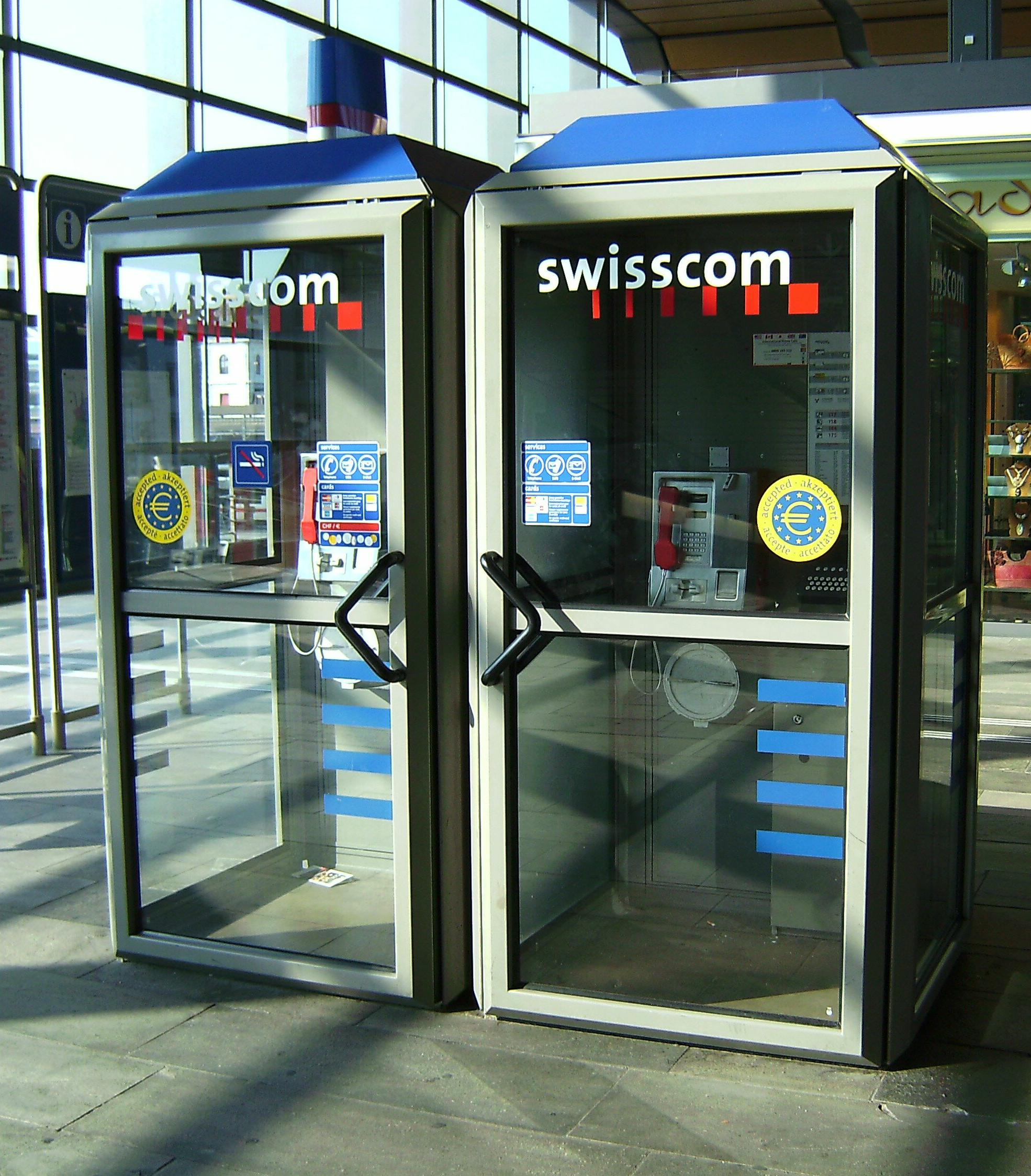 Payphone booths in the central train station of Basel, Switzerland.